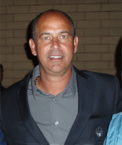 CMNT head coach Stephen Hart with fans after the Canada vs. USA (0-0) friendly in June 2012.